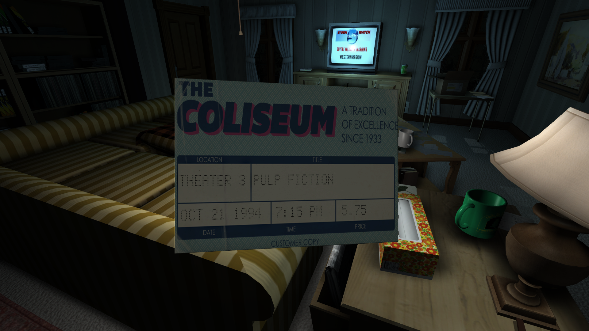 Gone Home gameplay screenshot, the player examines a movie ticket from a first-person perspective. Released in August 2013 by The Fullbright Company.